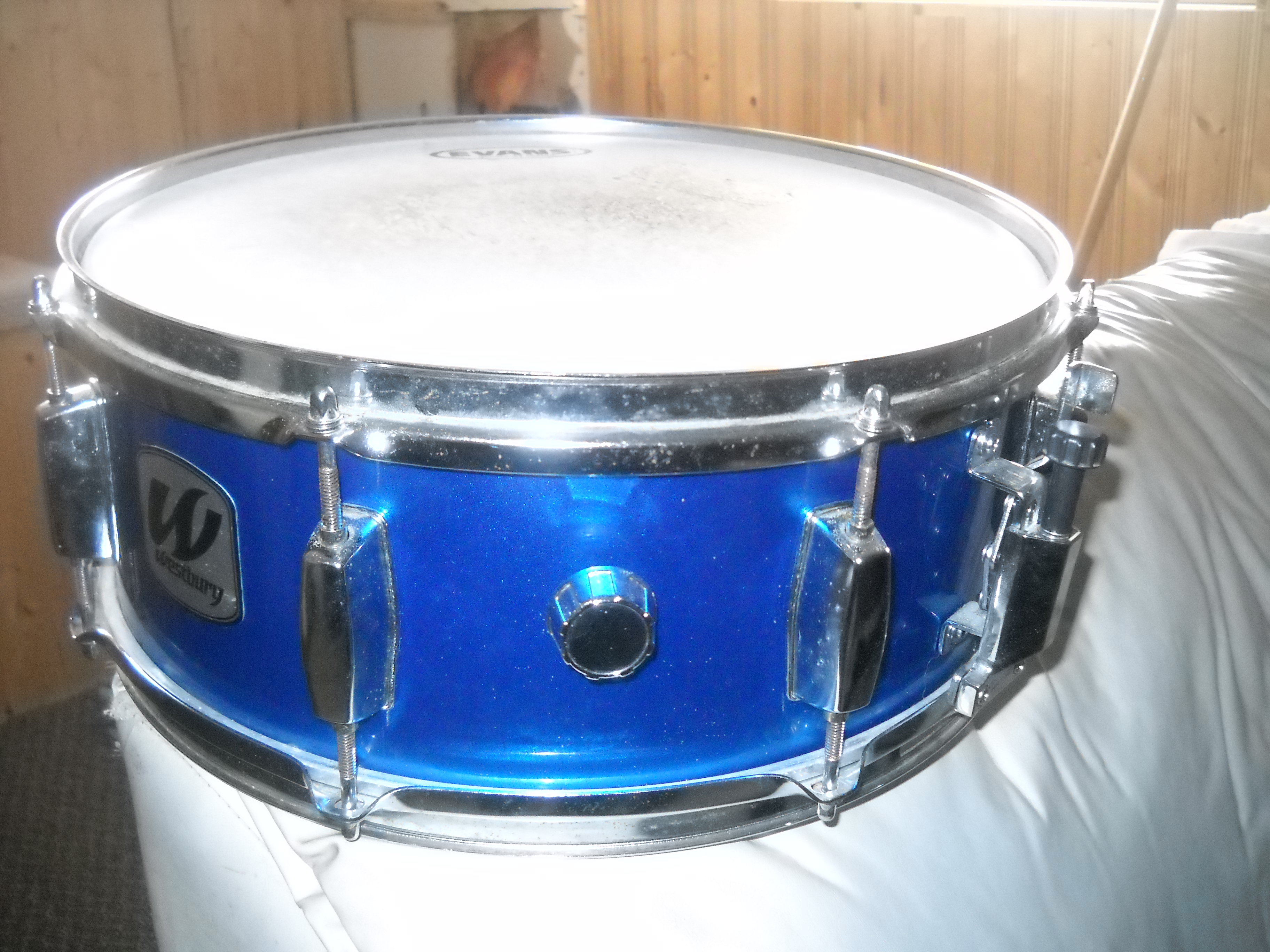 A Westbury Snare Drum